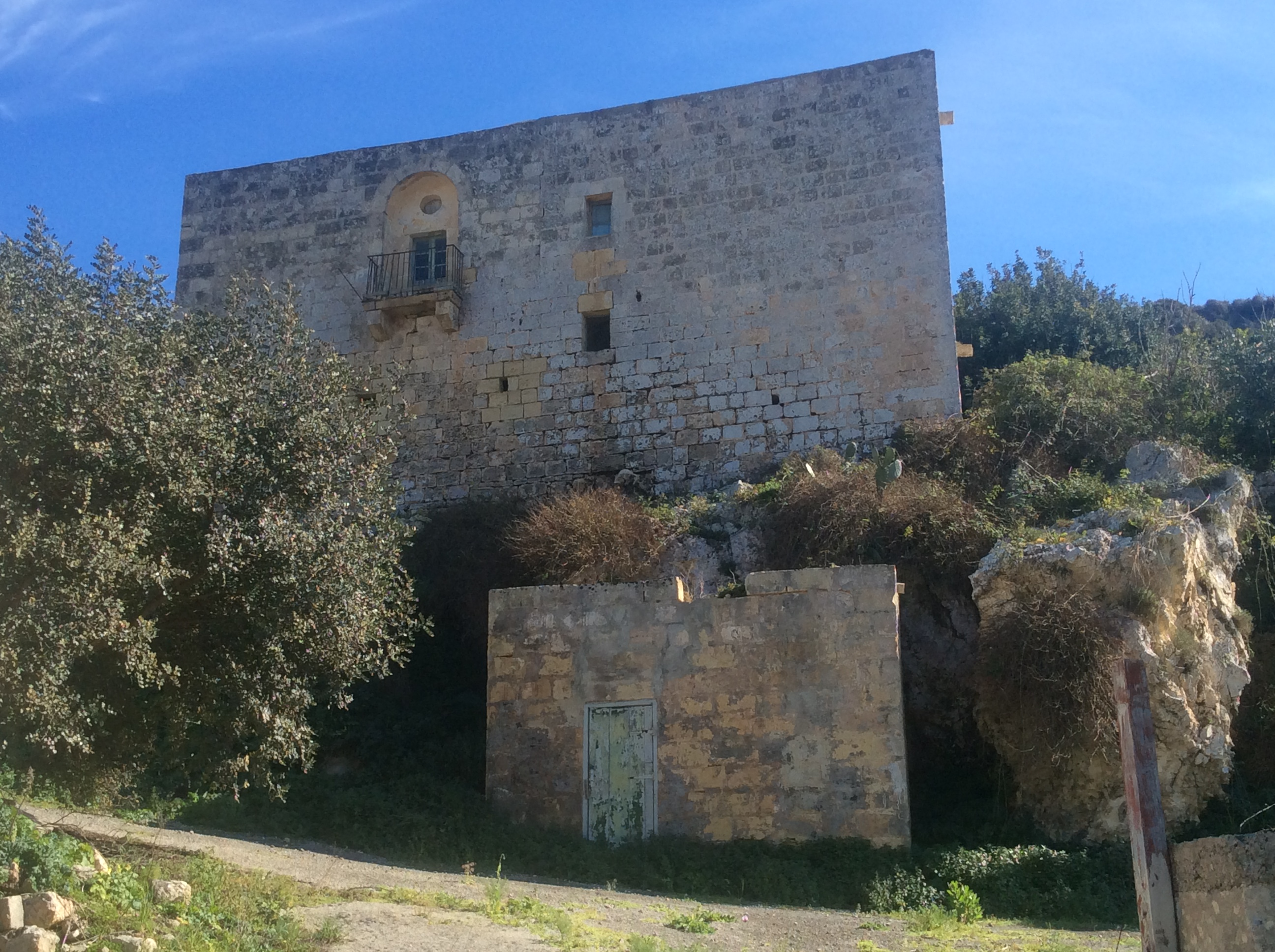 Mistra Gate building